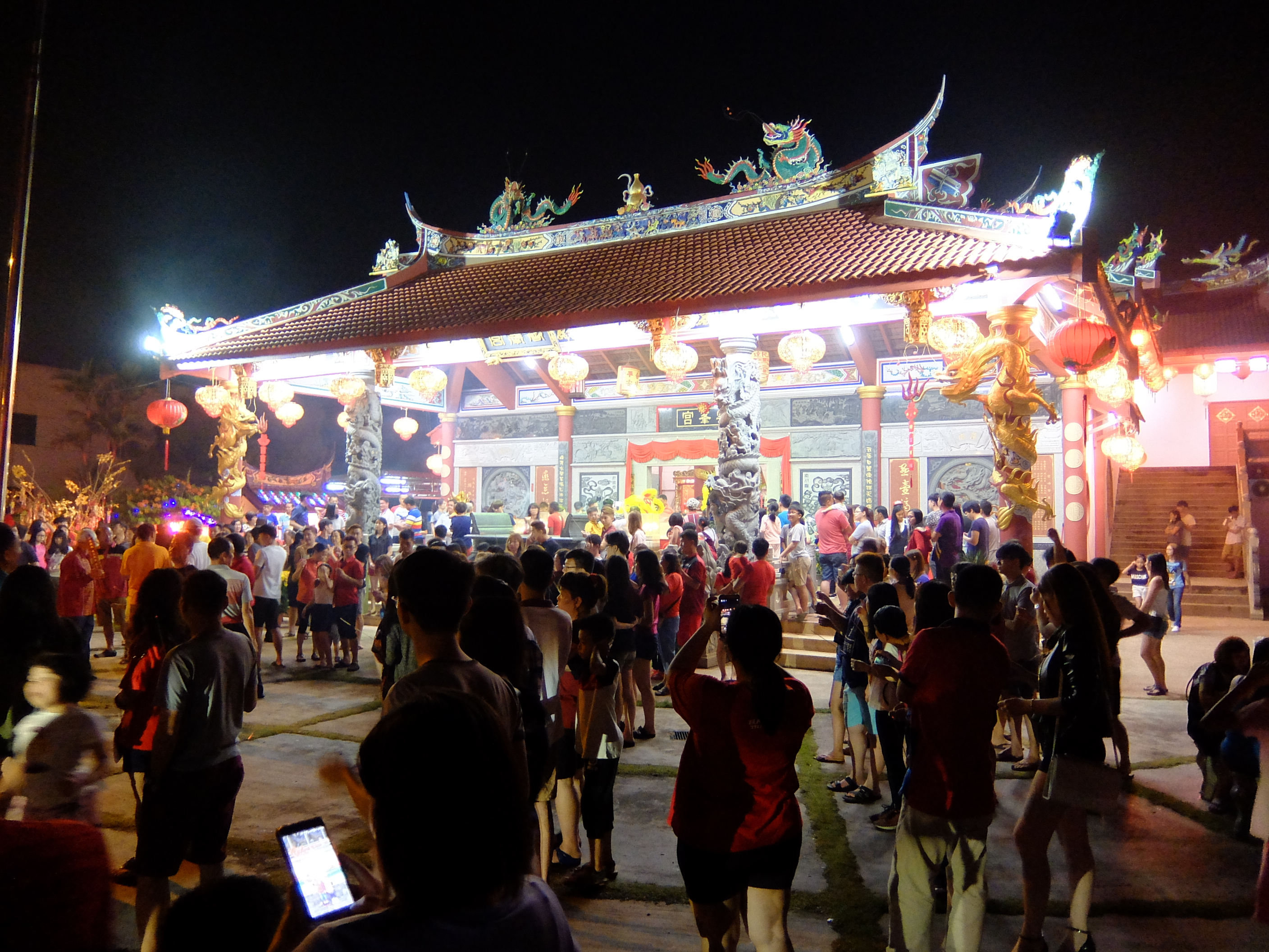 Yin Fong Temple, Jementah, Segamat, Johor, Malaysia